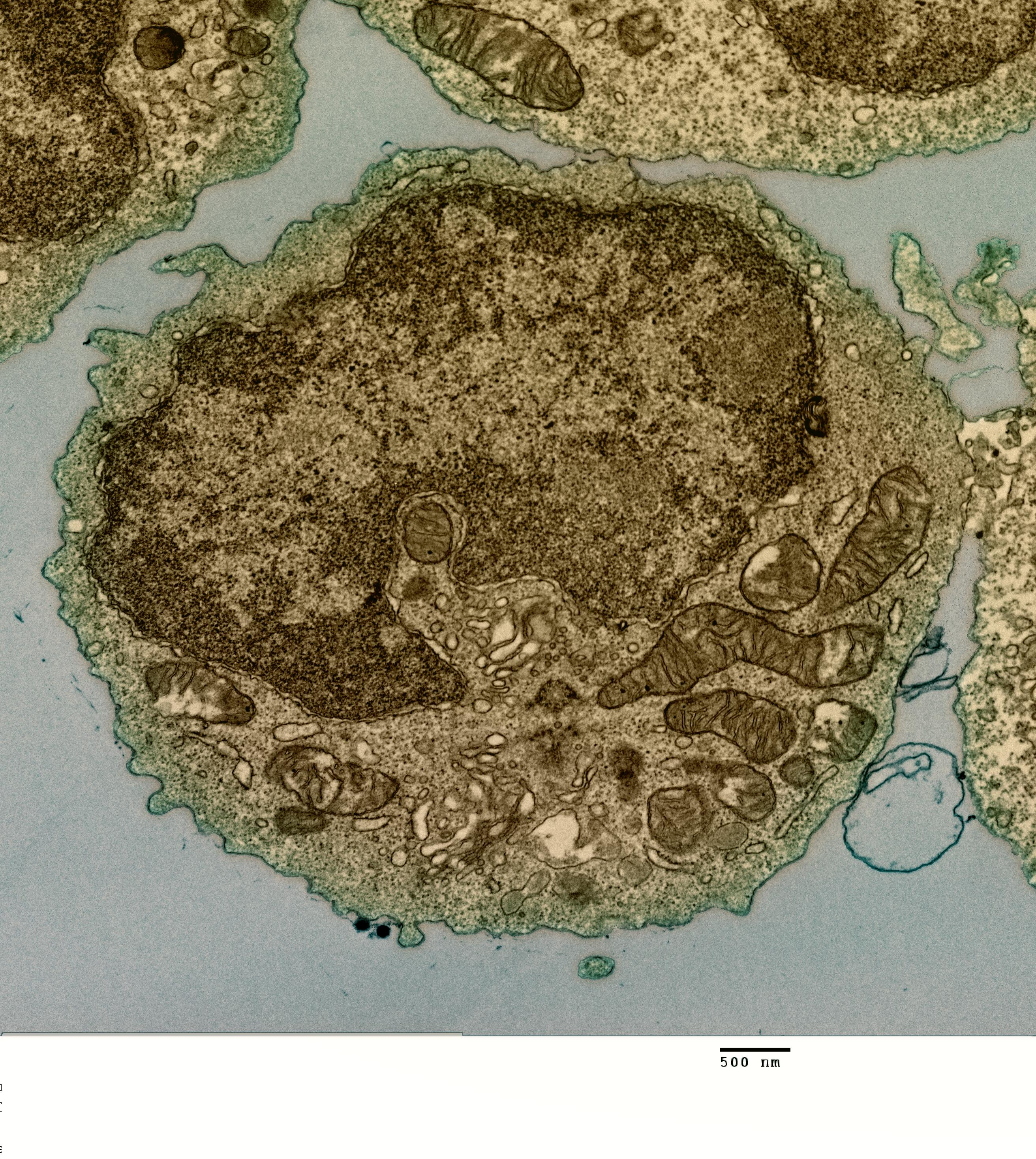 Transmission electron micrograph of a B cell from a human donor. Credit: NIAID